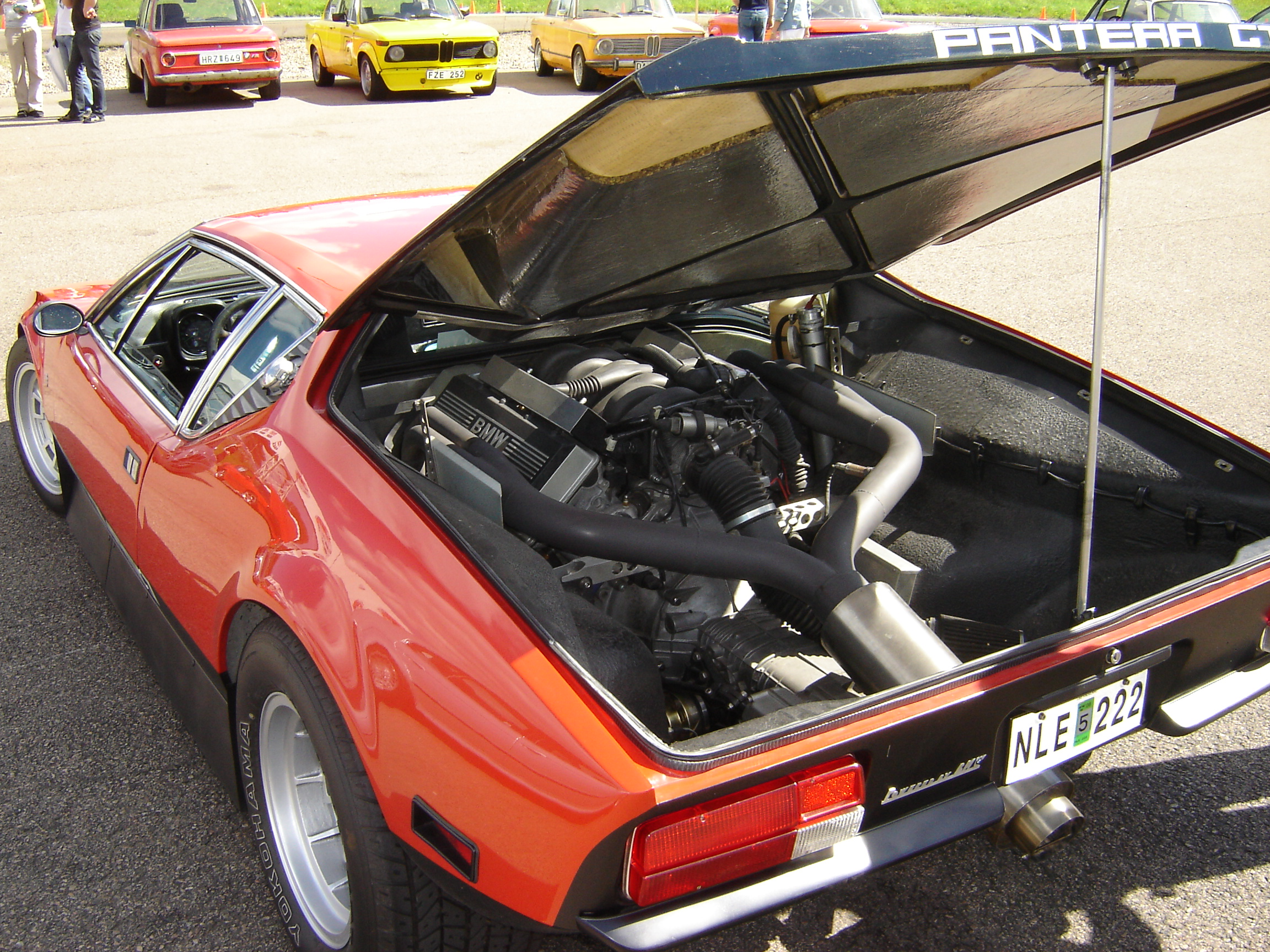 A few more of the Pantera with the BMW V8-engine.